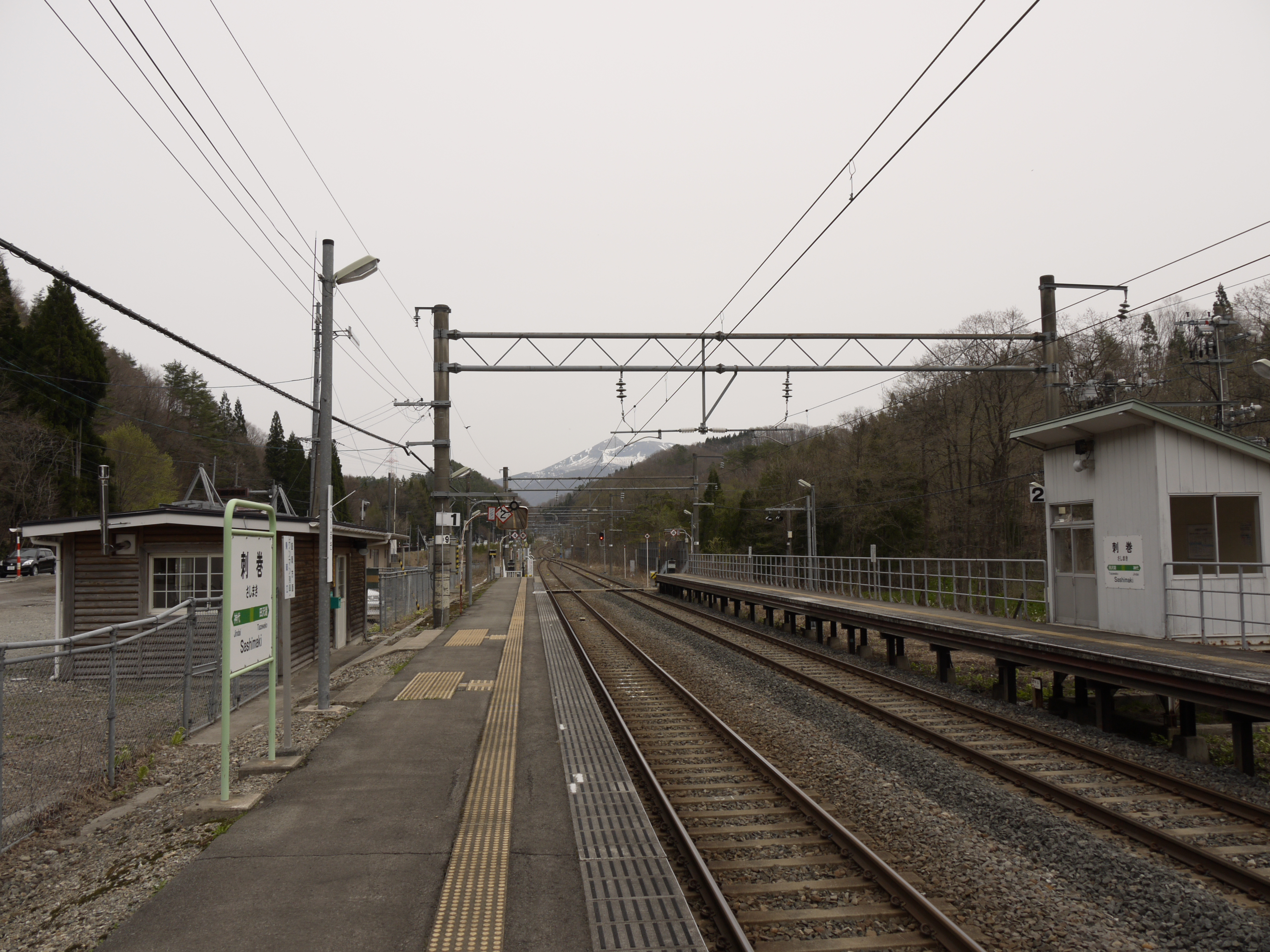 The platforms at Sashimaki Station in Akita Prefecture, Japan